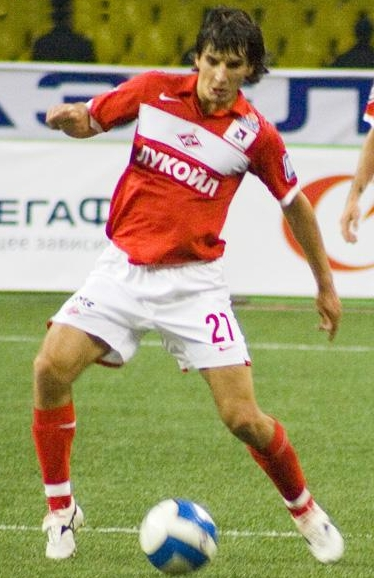 Sergey Kovalchuk in action for FC Spartak Moscow